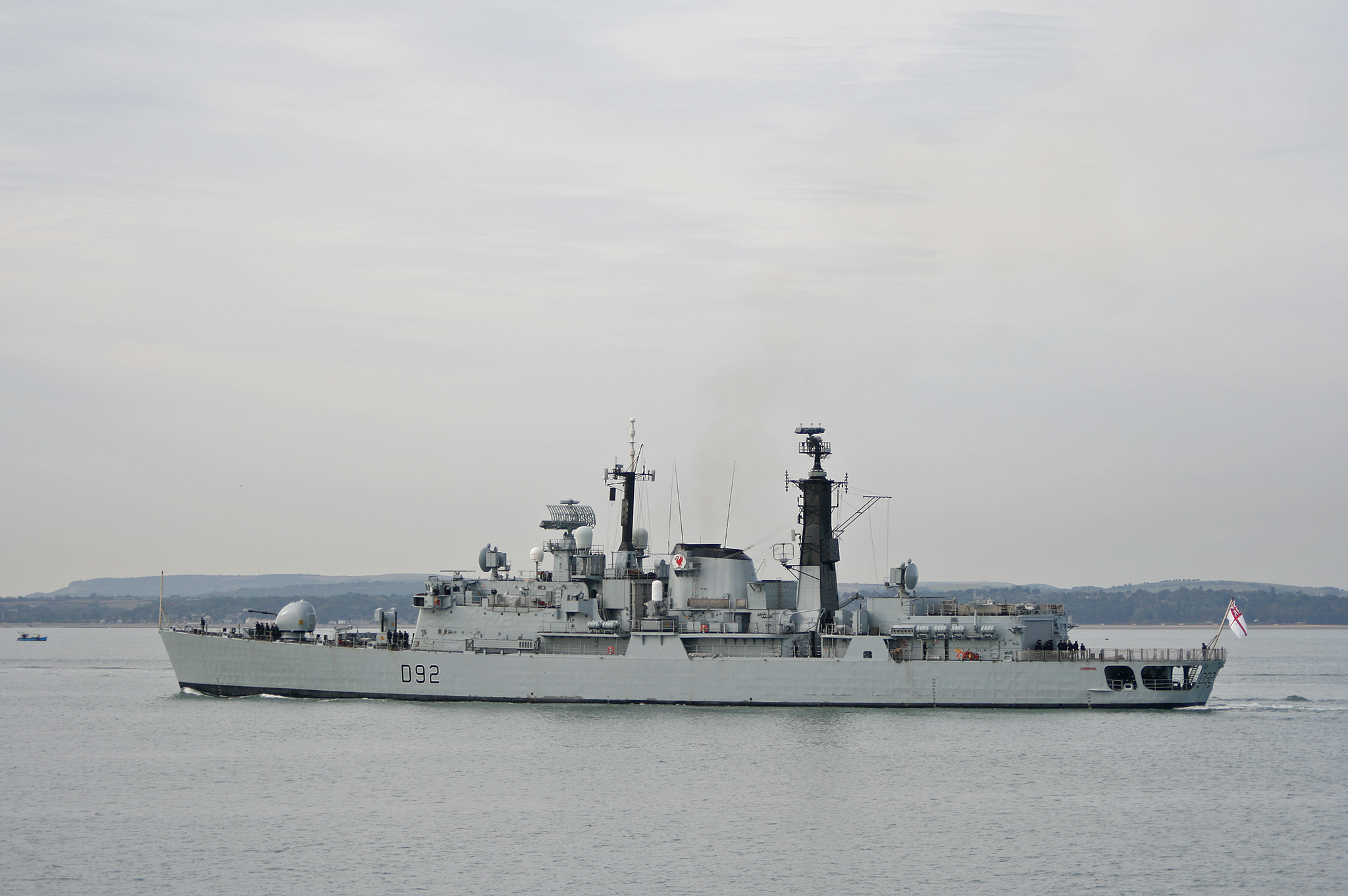 HMS Liverpool, a Royal Navy Type 42 Batch 2 air defence destroyer outward bound from Portsmouth Naval Base, UK, 21st September 2009. Image uploaded by me George Hutchinson using a photograph supplied by Brian Burnell. The photograph should be attributed to Brian Burnell.